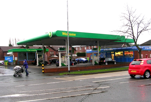 BP Filling Station - Horbury Road